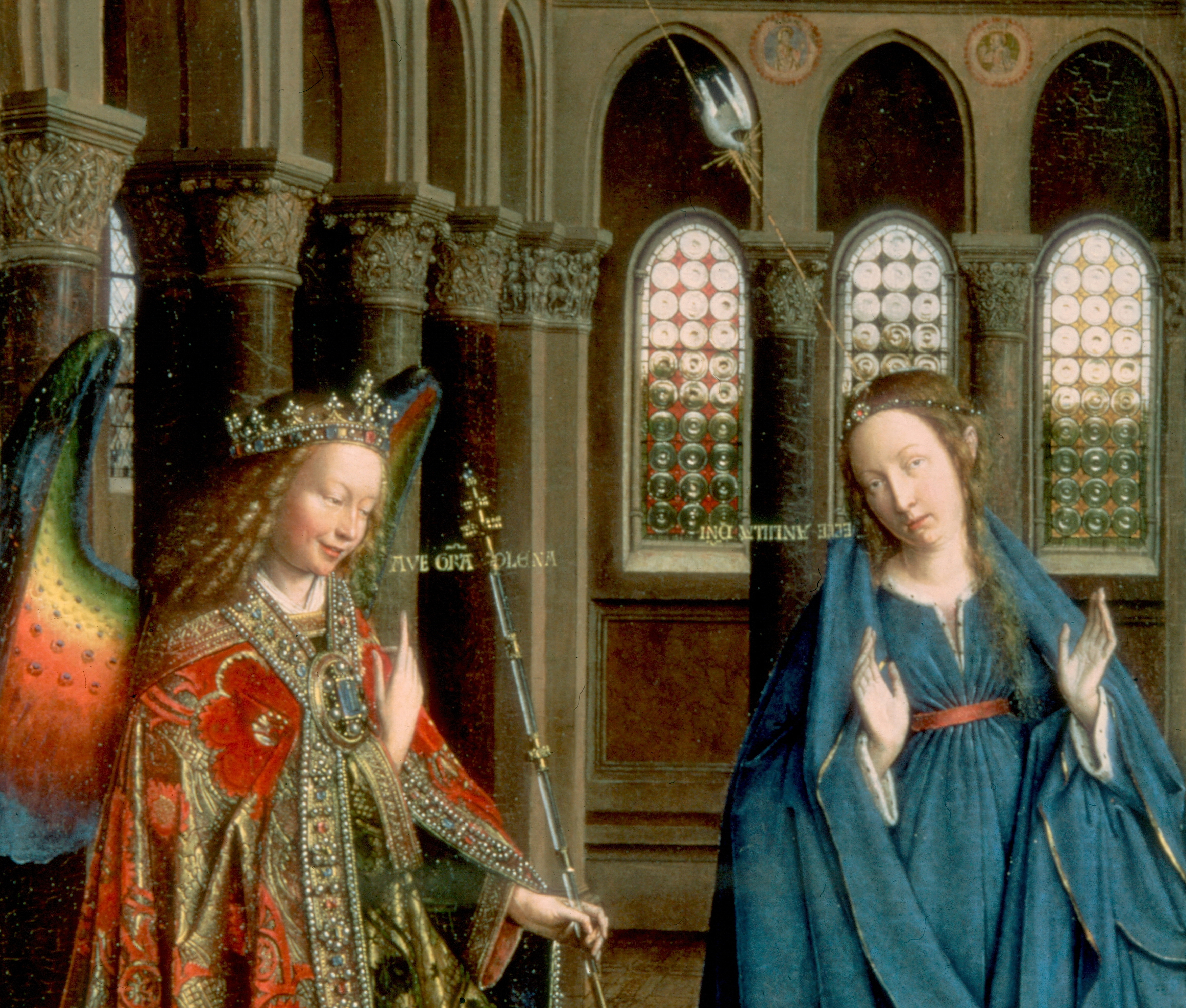 Annunciation from Jan van Eyck, Washington DC